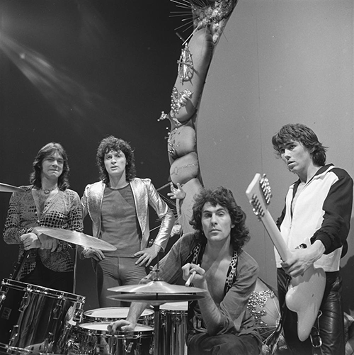 Golden Earring in AVRO's TopPop (Dutch television show) in 1974